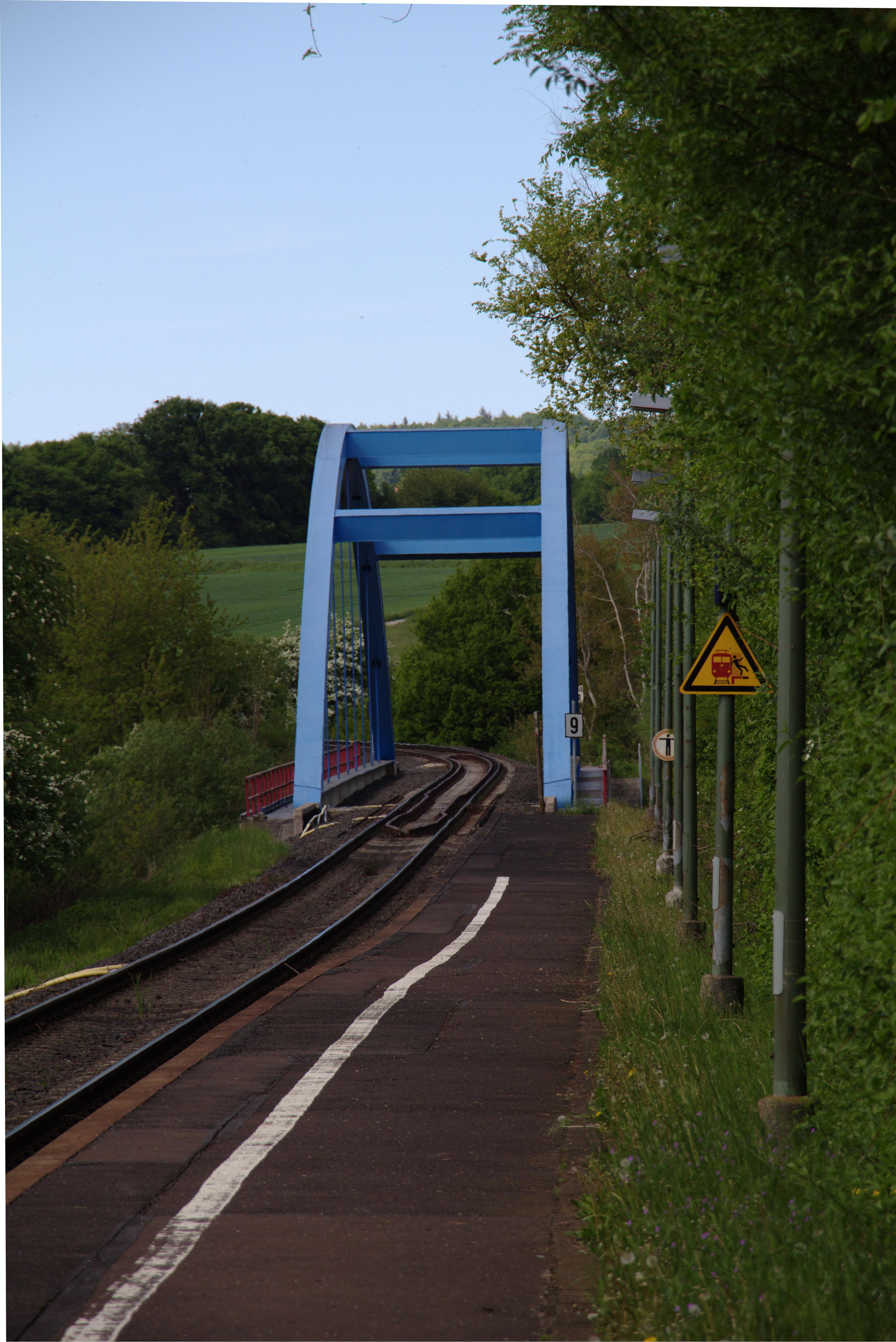 Train station Oberbimbach (Vogelsbergbahn) in Bimbach, Grossenlueder, Hesse, Germany